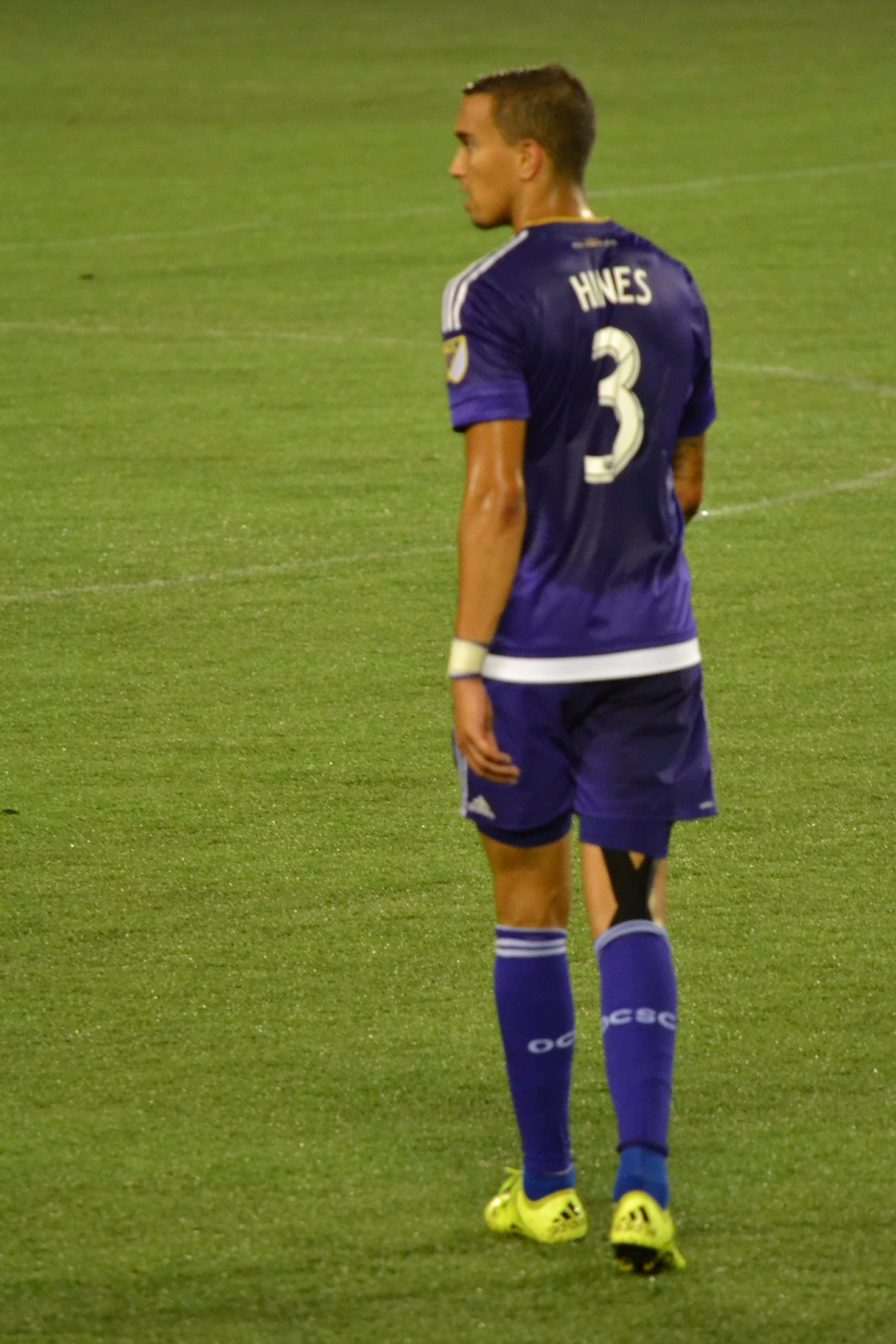 Seb Hines playing for Orlando City against Columbus Crew in the US Open Cup 30 June 2015